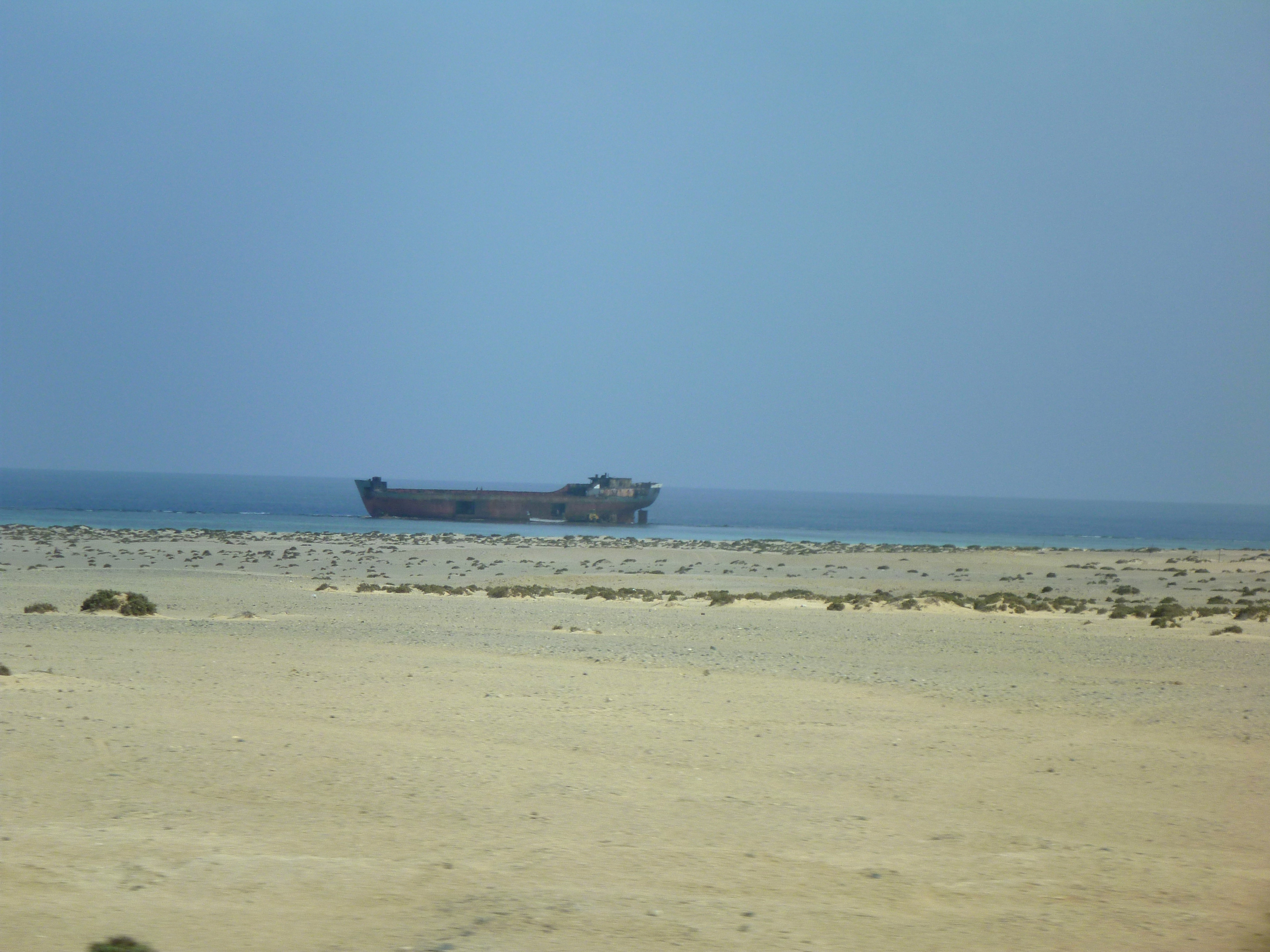 Ship wreck "Sea Lion I" on the coral reef in Wadi el Gemal National Park